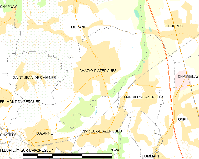 Map of French municipality